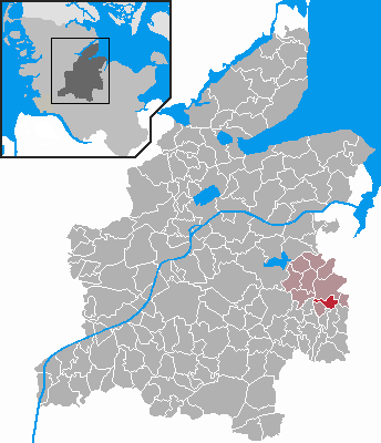 Locator maps of municipalities in Schleswig-Holstein - District Rendsburg-Eckernförde